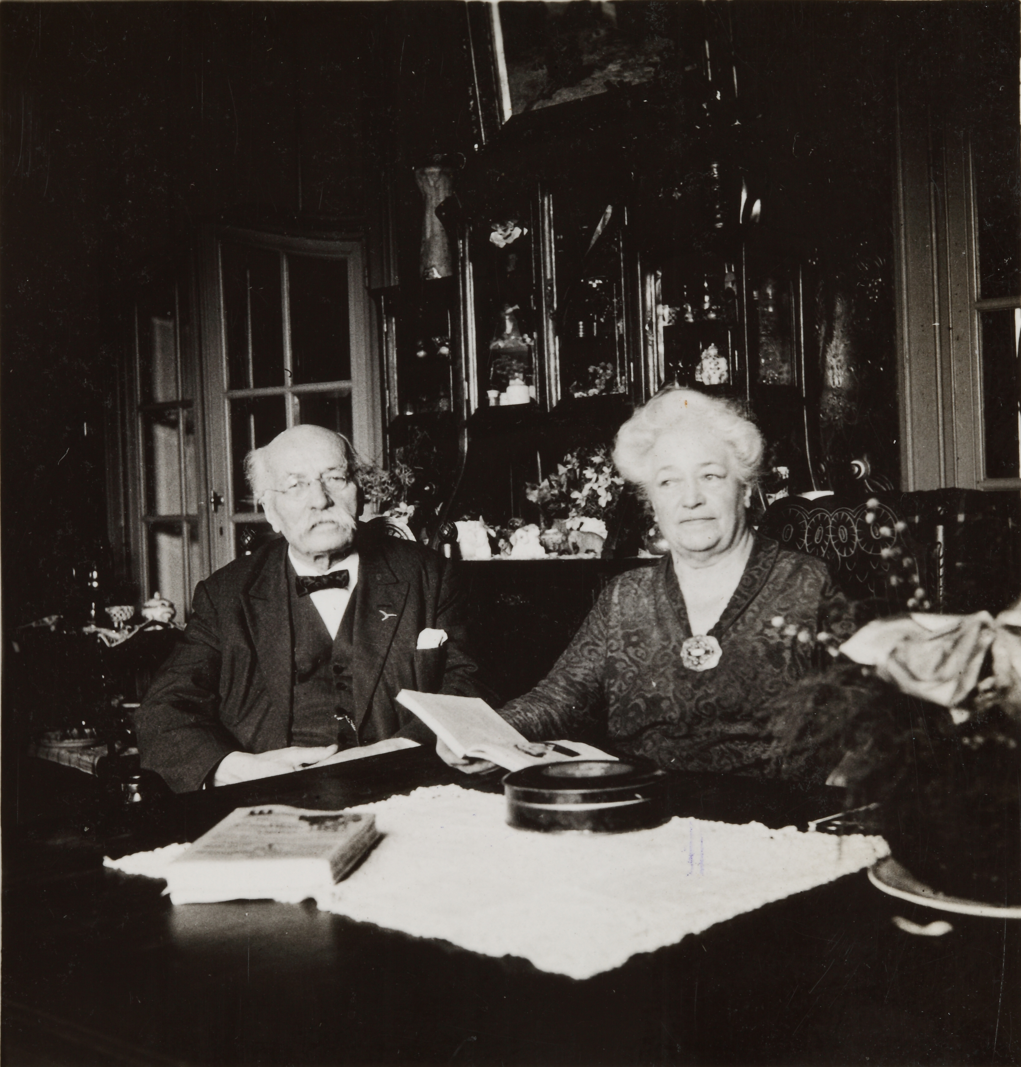 Henri La Fontaine and his wife in the dining room of their house on the Vergote Square, 1932